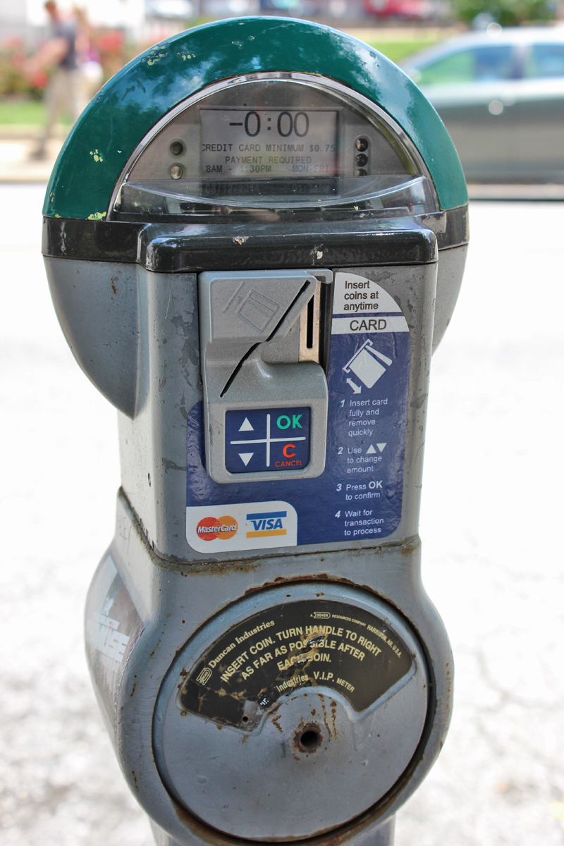 The front of a parking meter.